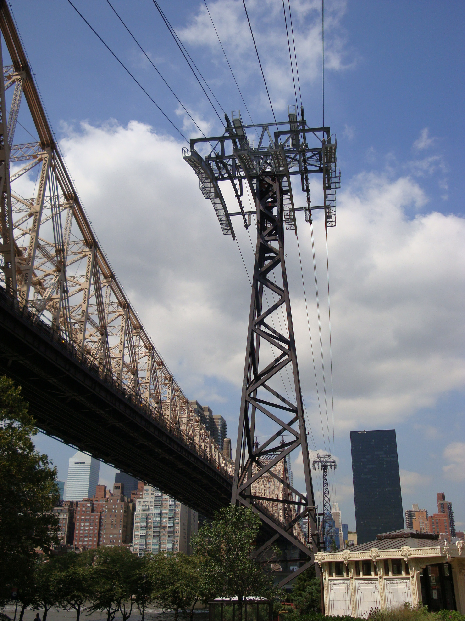 The support tower for Roosevelt Island Tram